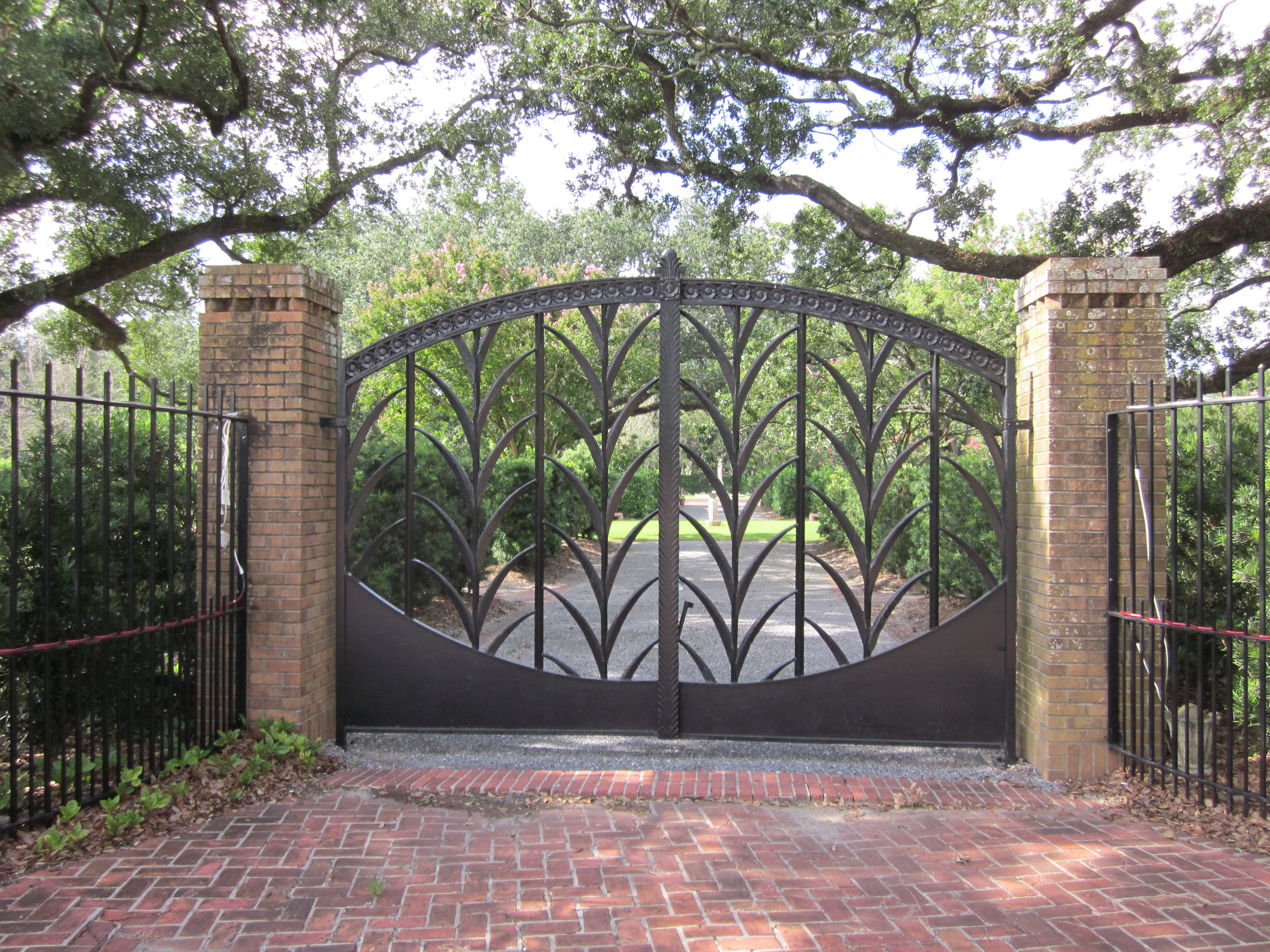 Gate at the Bontanical Garden, City Park, New Orleans.